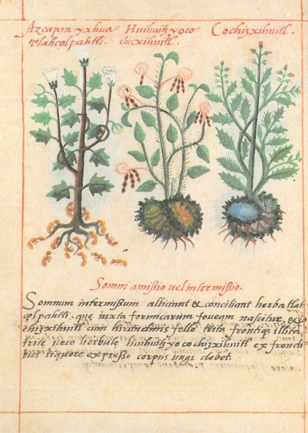 Libellus de medicinalibus Indorum herbis f. 29r: Datura and two other plants